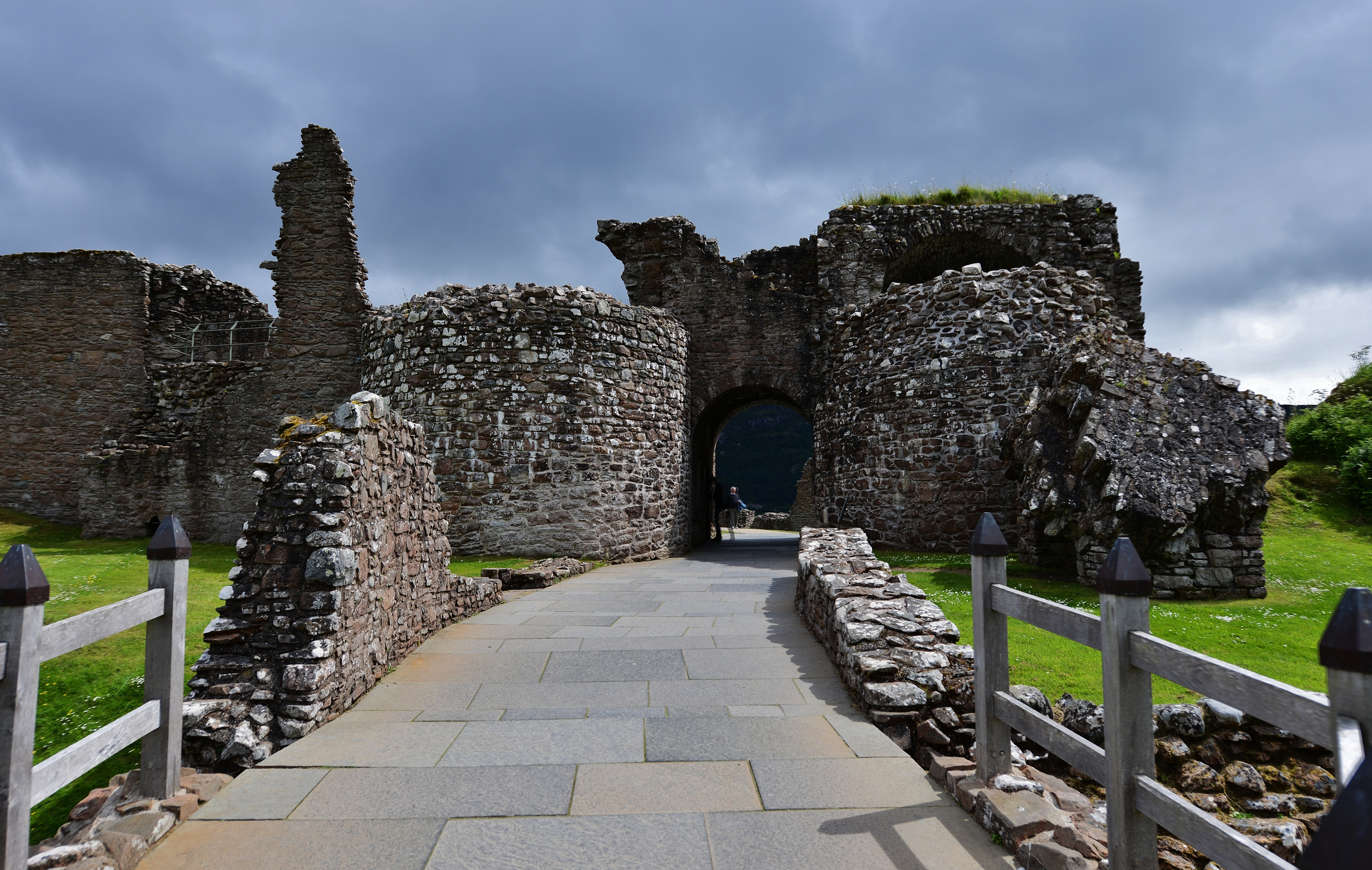 URQUHART CASTLE Wikidata has entry Q913981 with data related to this building.